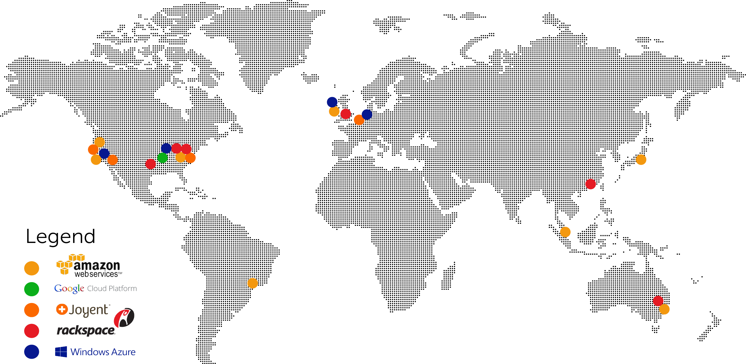 mongolab datacenter map